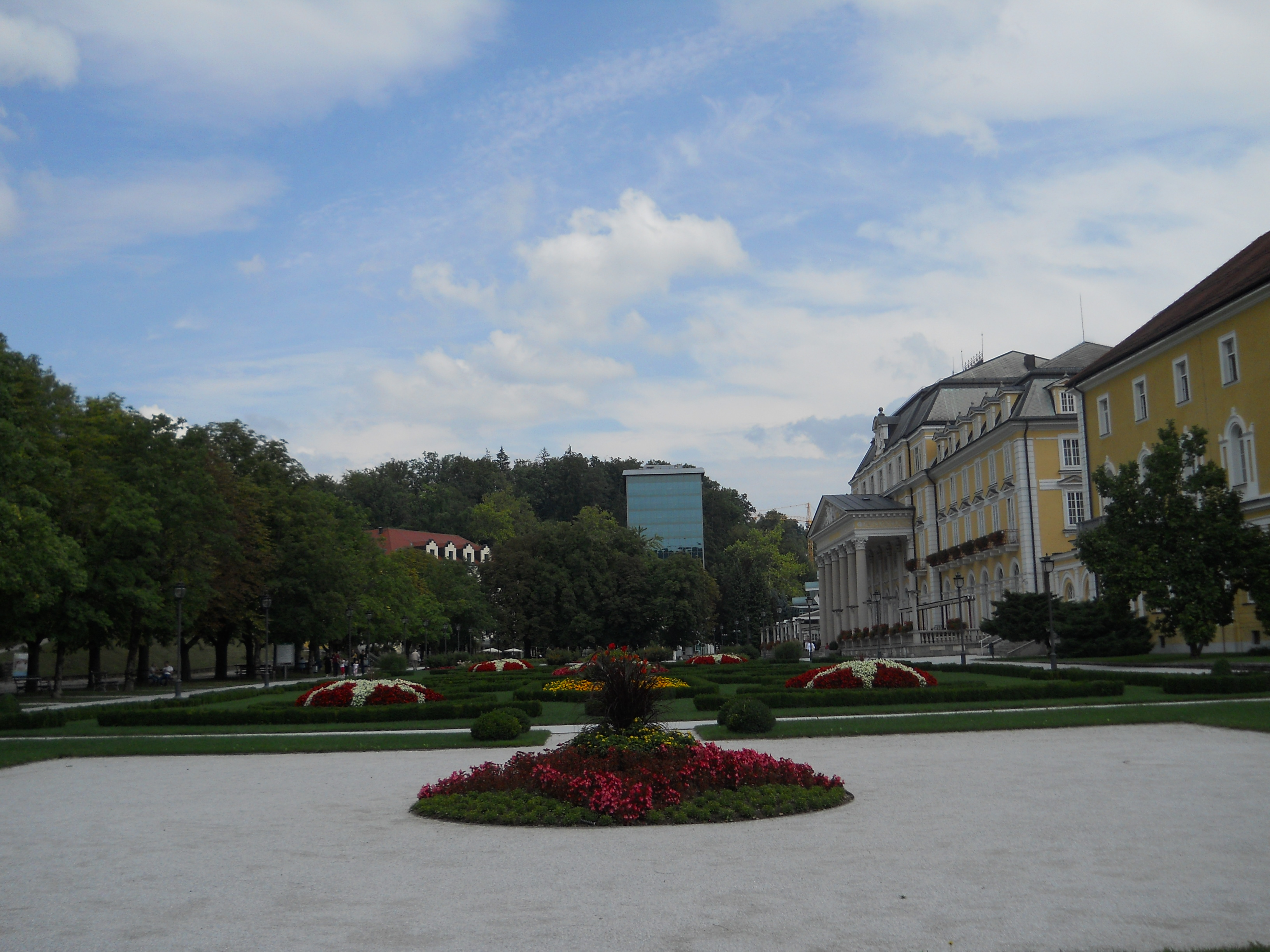 The park in the health resort Rogaska Slatina, Slovenia.